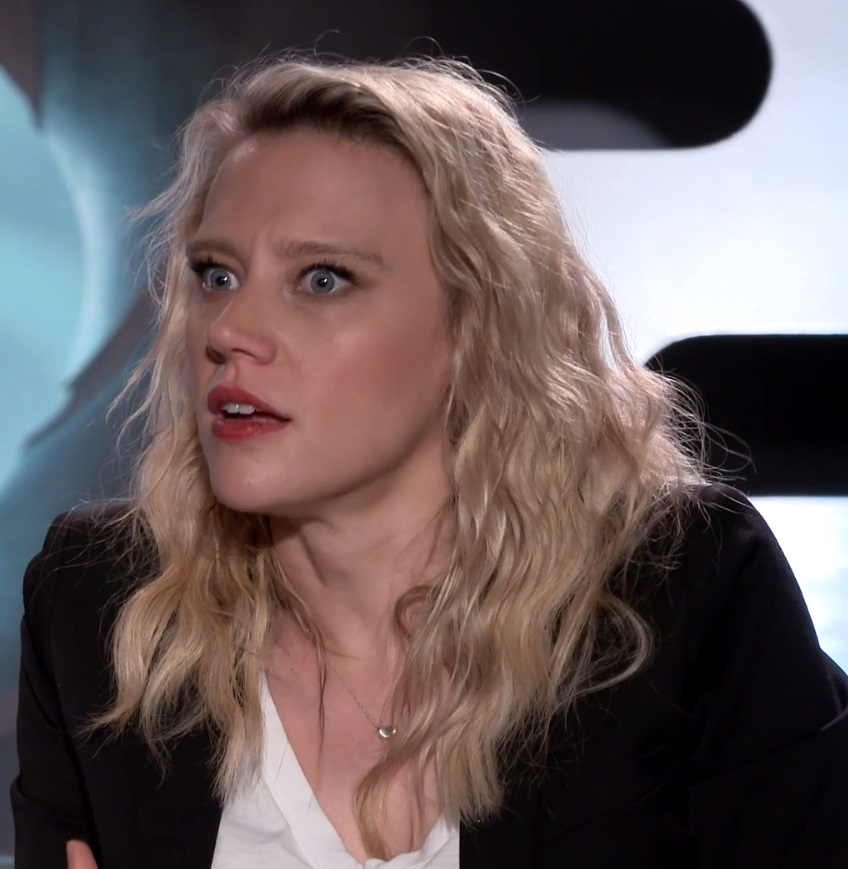 Kate McKinnon in an interview for ColliderVideo in 2018